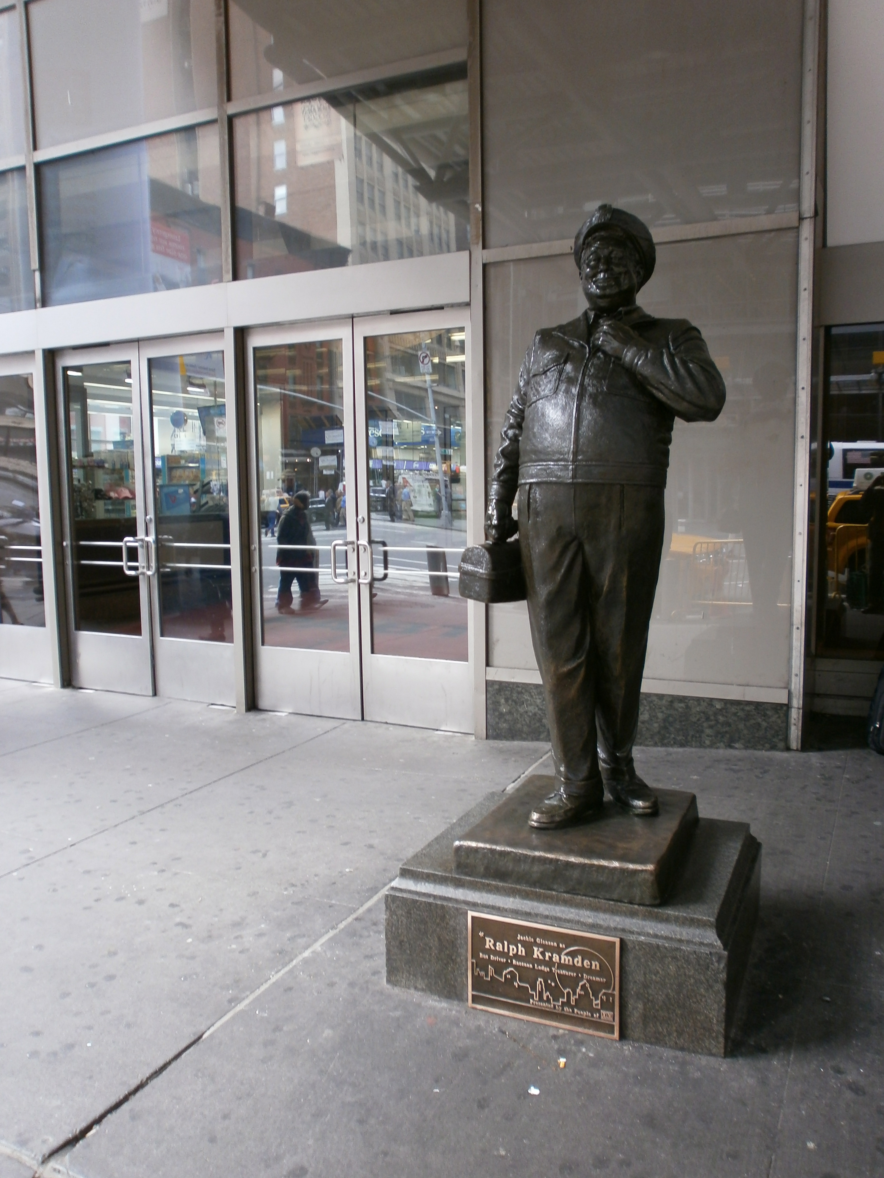 Ralph Kramden (Jackie Gleason) statue at Port Authority Bus Terminal (8th Ave & 41st, NYC)